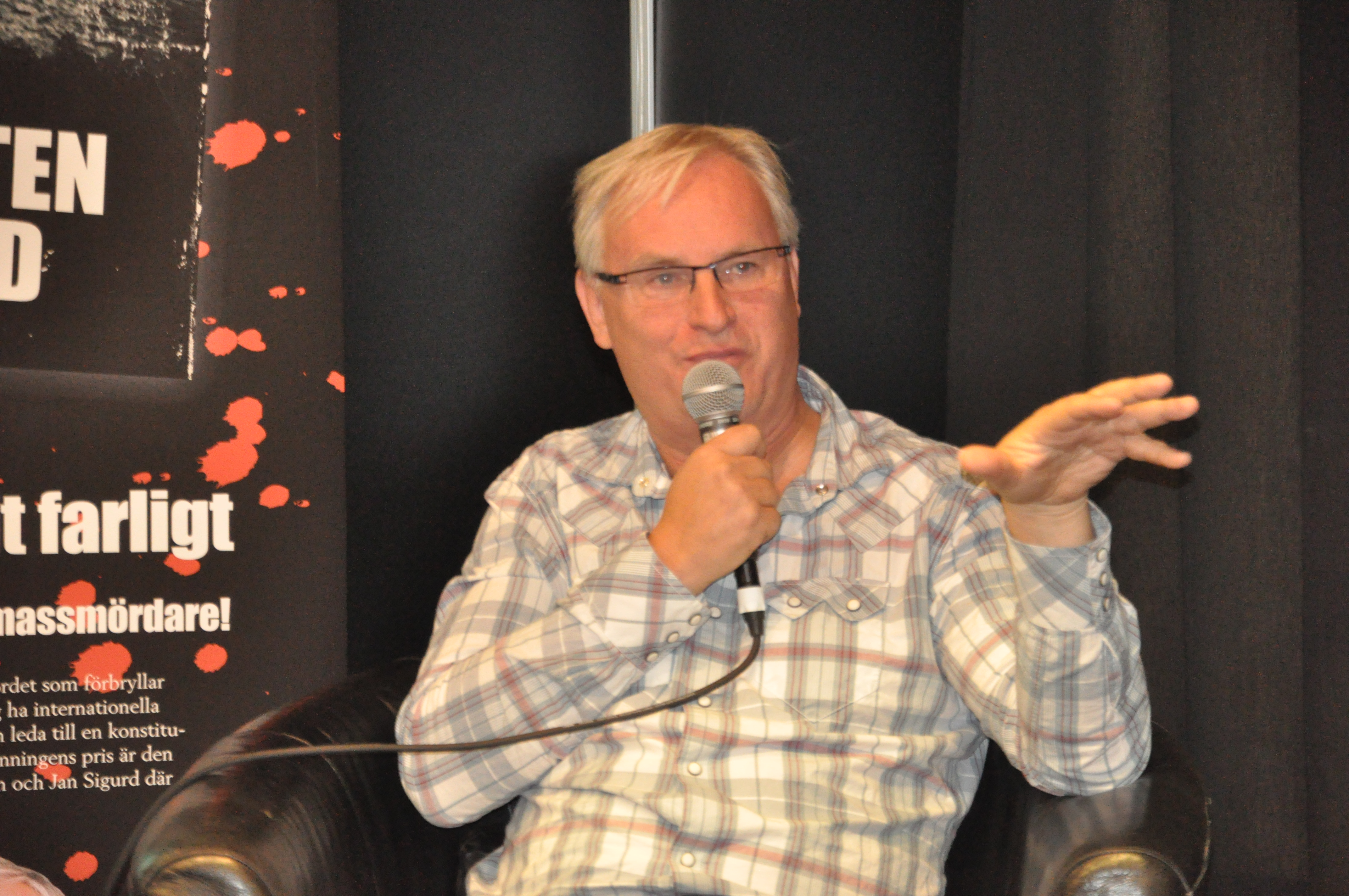 Jan Sigurd at the Göteborg Book Fair 2011